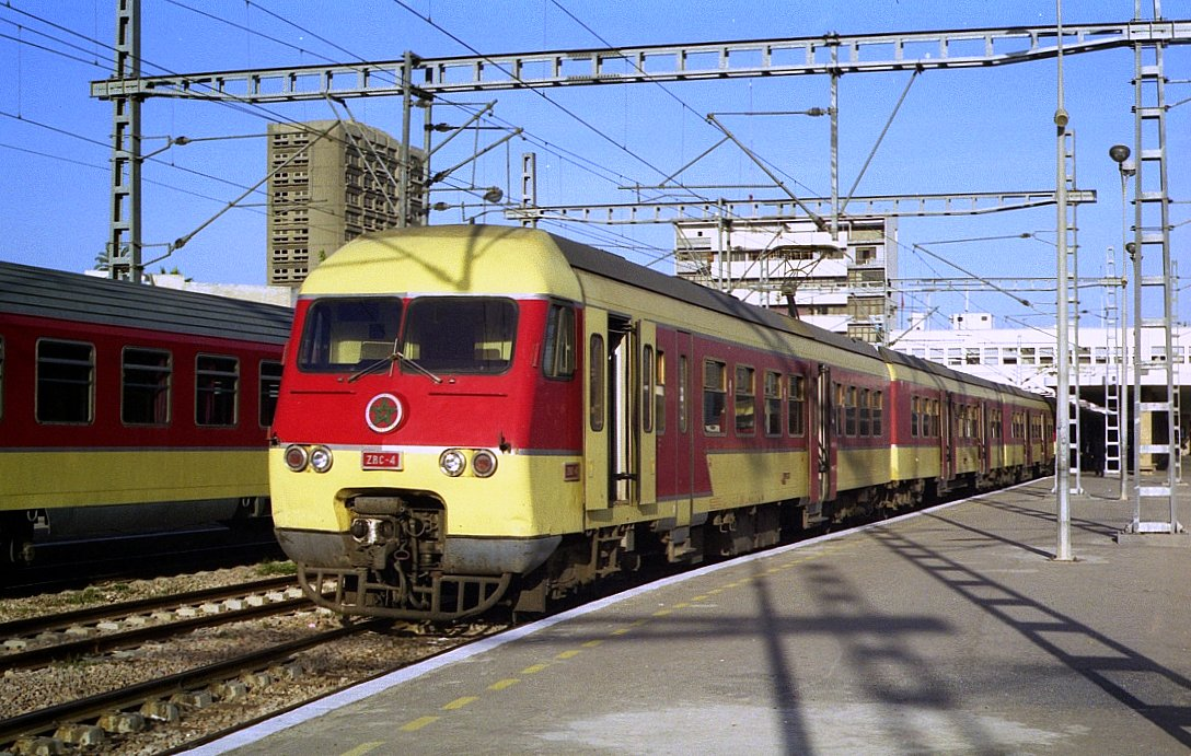 Belgian built EMUs which are identical to class AM80 "Break" units seen in Belgium. In Morocco they work local services from Kénitra via Rabat through to Casablanca Airport. Taken on 31 October 2002, ZRC no. 4 is seen at Casablanca Voyageurs.